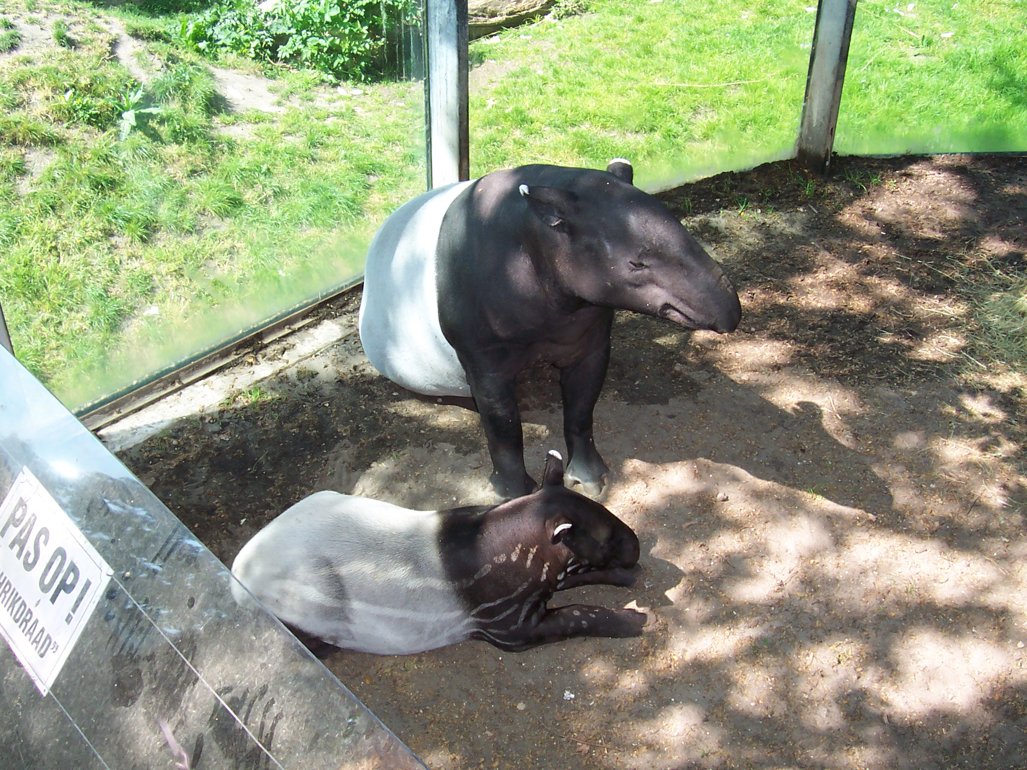 Adult female and juvenile Asian Tapir (Tapirus indicus) in Artis Zoo, Amsterdam